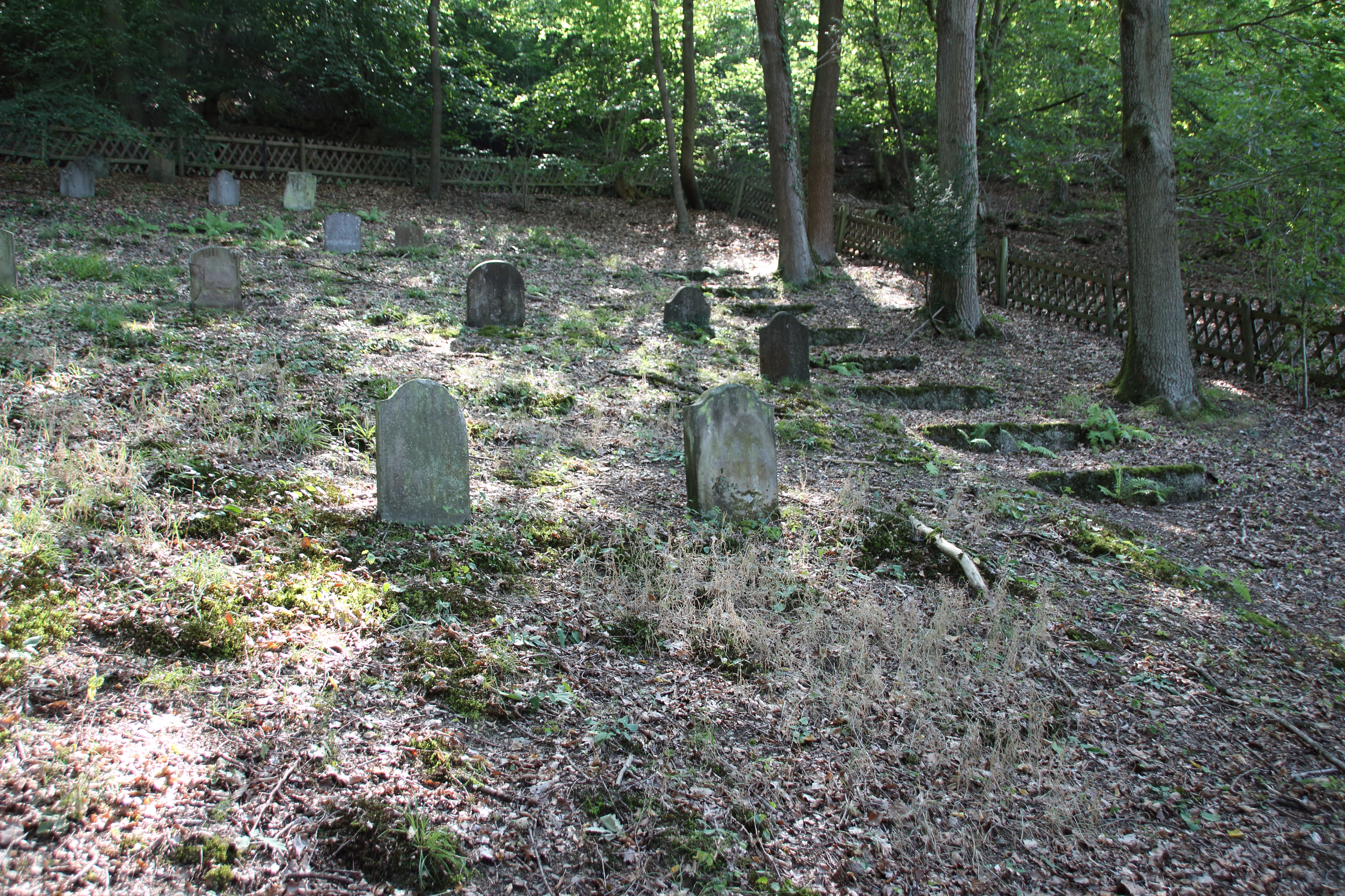 Jewish cemetery Fachbach, Rhineland-Palatinate, Germany